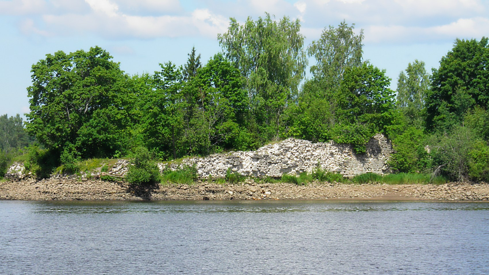 Sēlpils Castle ruins